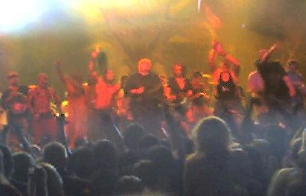 Insane Clown Posse performing the song "Bang! Pow! Boom!" at the Oddball Bonanza Show at the Electric Factory in Philadelphia.